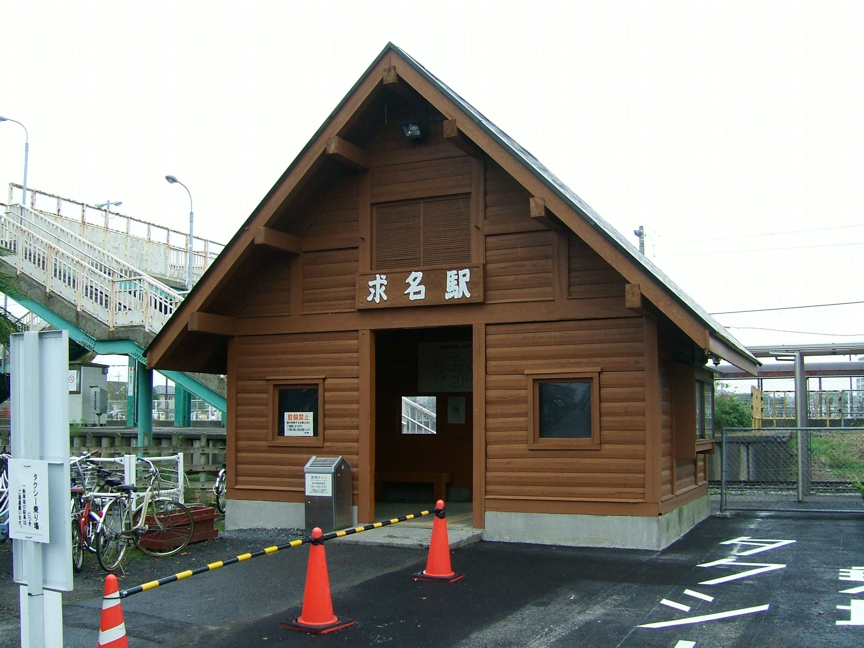 Gumyō Station building (East Japan Railway Tōgane Line)